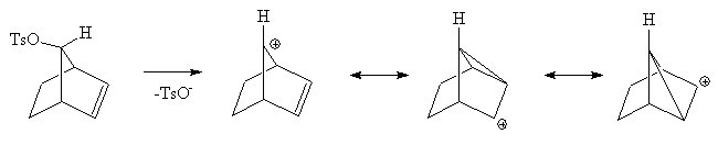 Neighbouring_group_participation by an alkene